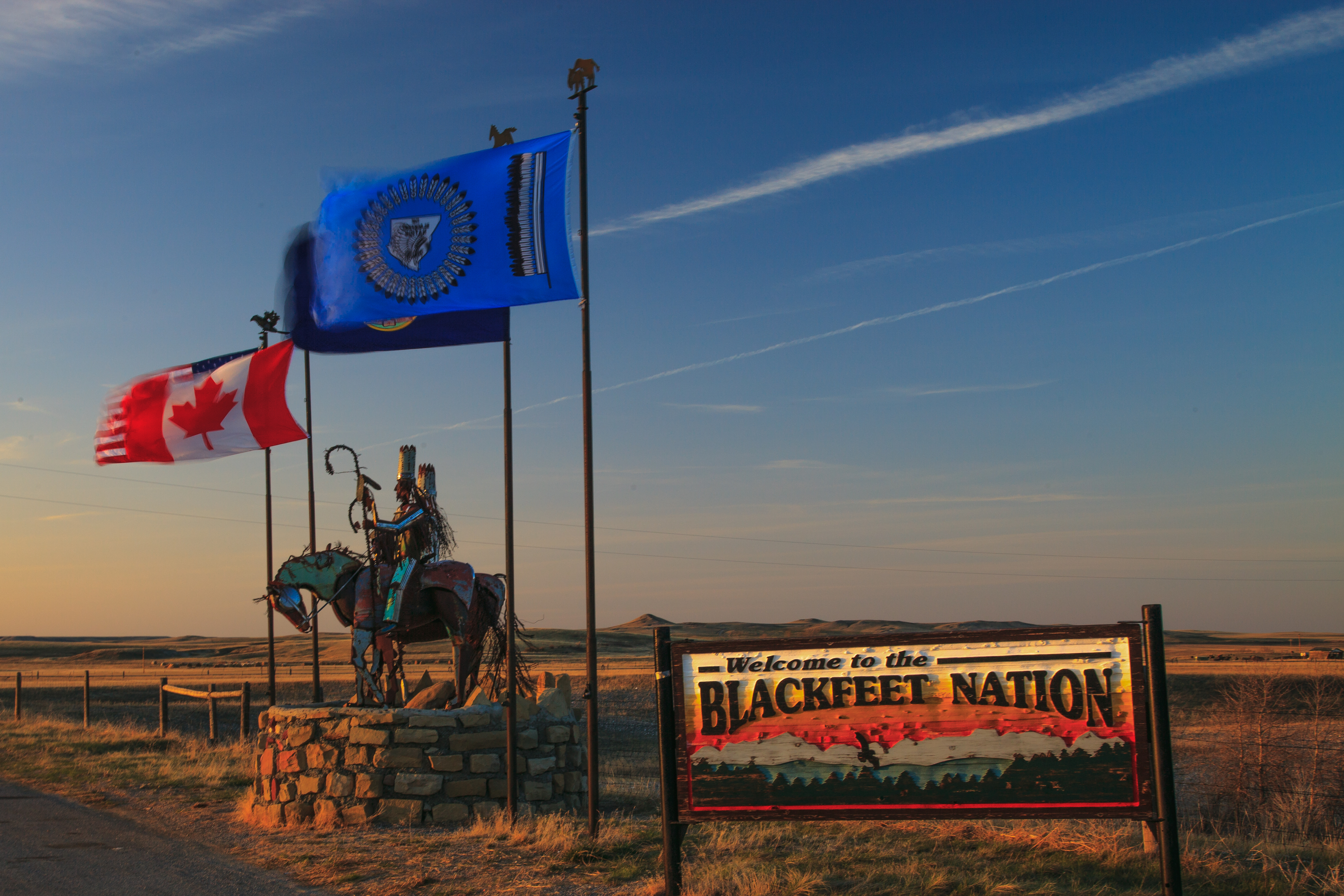 Blackfeet Indian sign